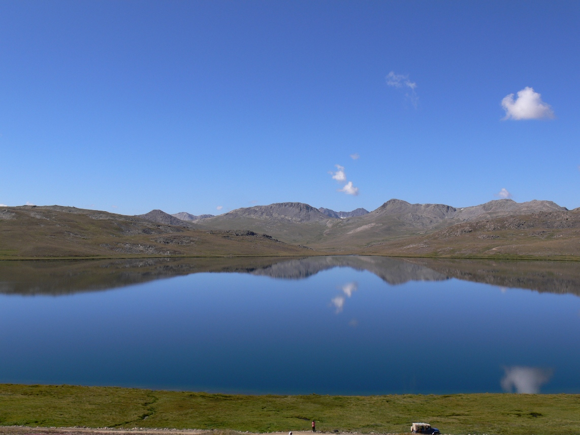 Calmness of lake